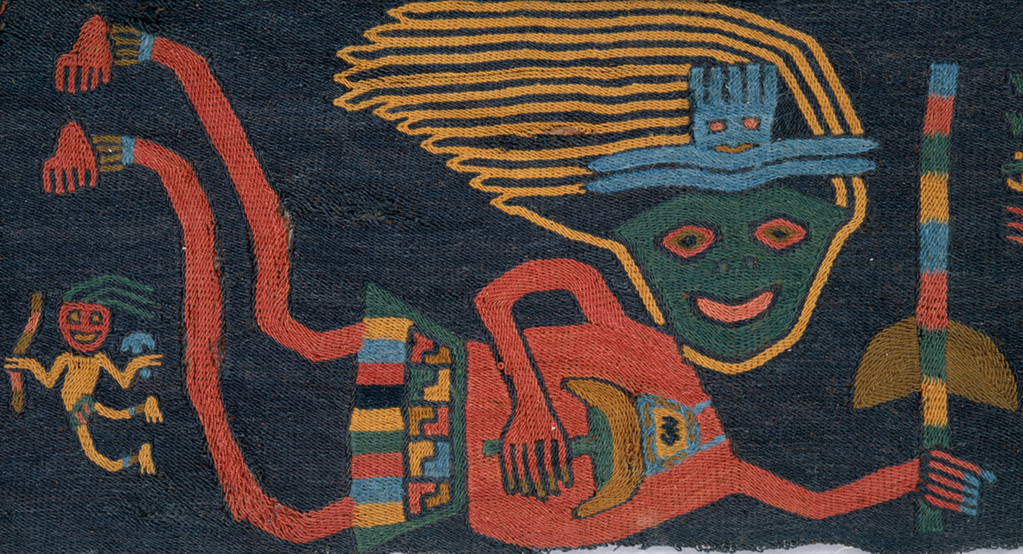 Paracas; Border fragment; Textiles-Woven